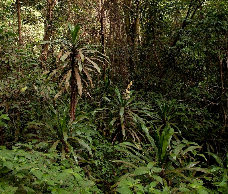 Forest dracaena in Chirinda Forest at Mount Selinda, eastern Zimbabwe. The very common scrambling, soft-wooded shrub can form dense colonies in the understorey of some submontane evergreen forests in Zimbabwe and Mozambique. Their flowers open in the early evening.